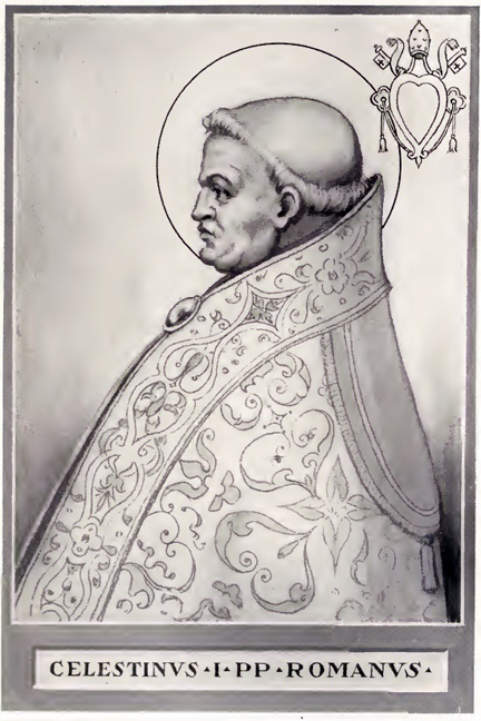 This illustration is from The Lives and Times of the Popes by Chevalier Artaud de Montor, New York: The Catholic Publication Society of America, 1911. It was originally published in 1842.